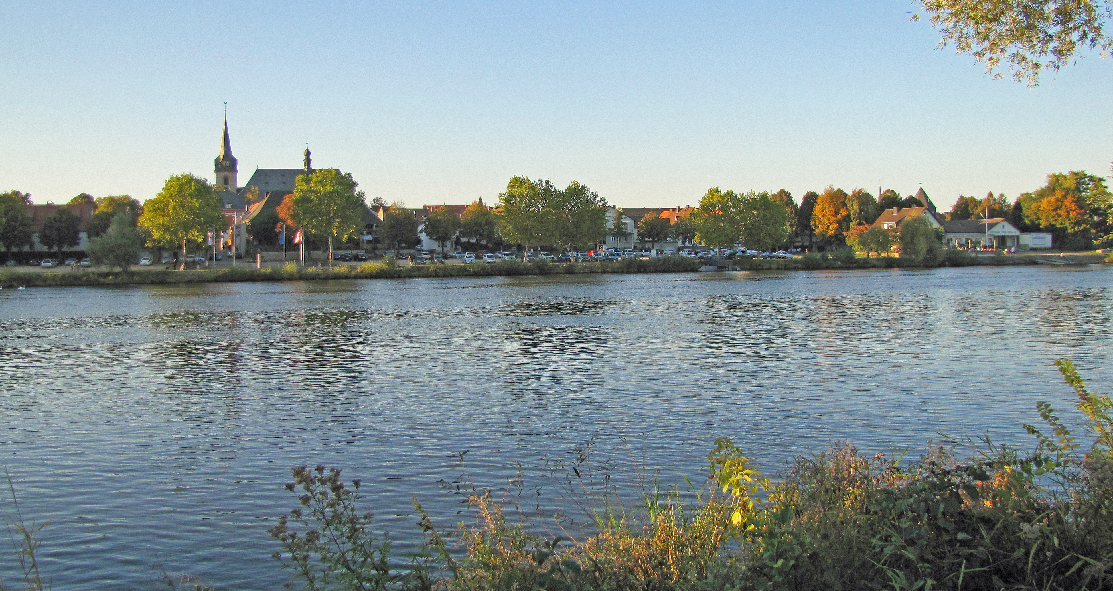 The "Main", river bank of "Floersheim", Hesse, Germany.